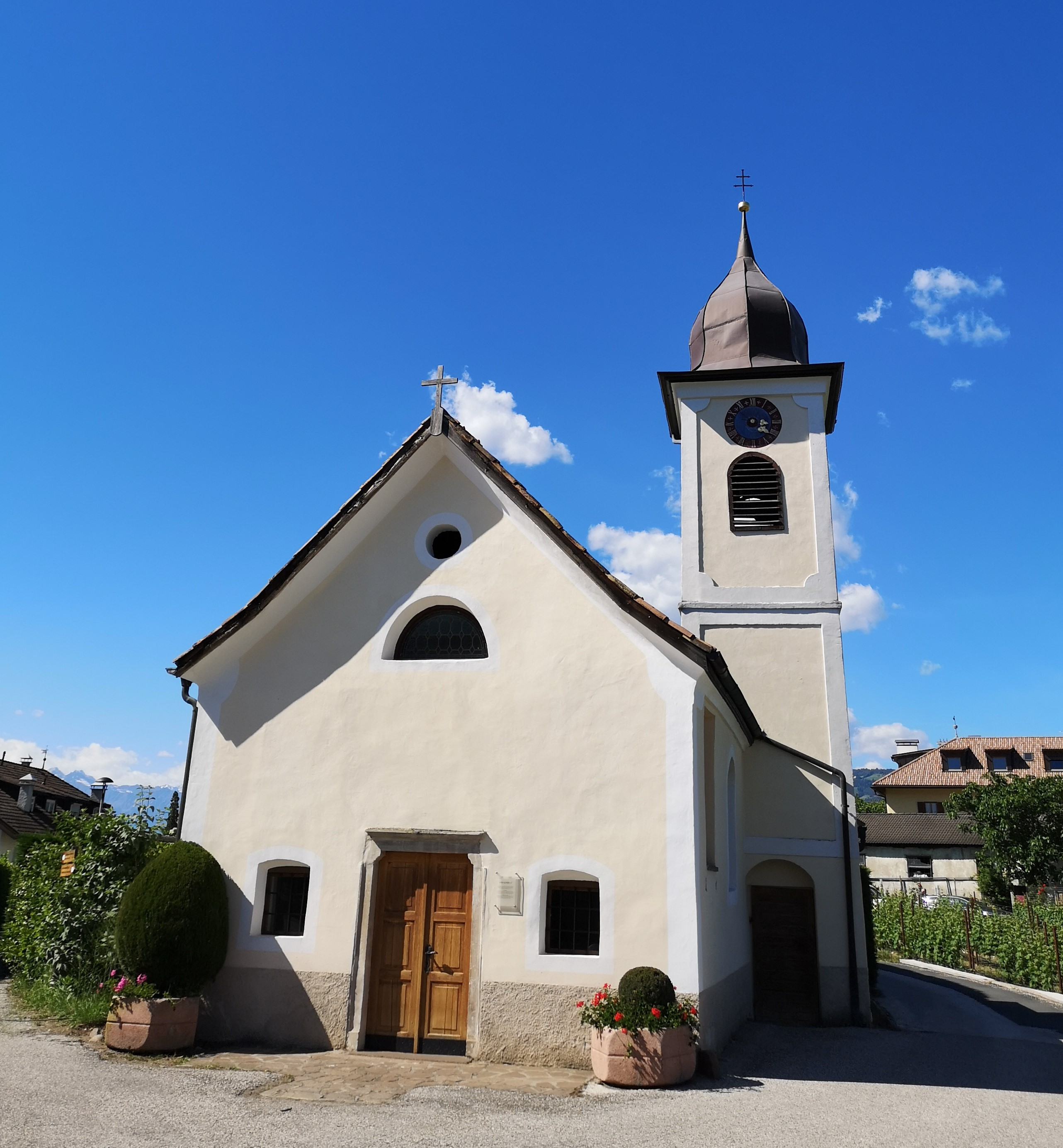 The Holy-Cross-Chapel in Schreckbichl-Girlan